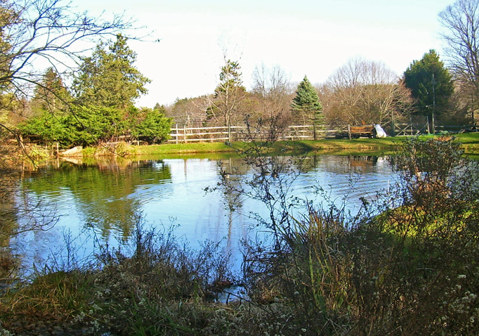 Photographed by Daniel Case 2006-11-24